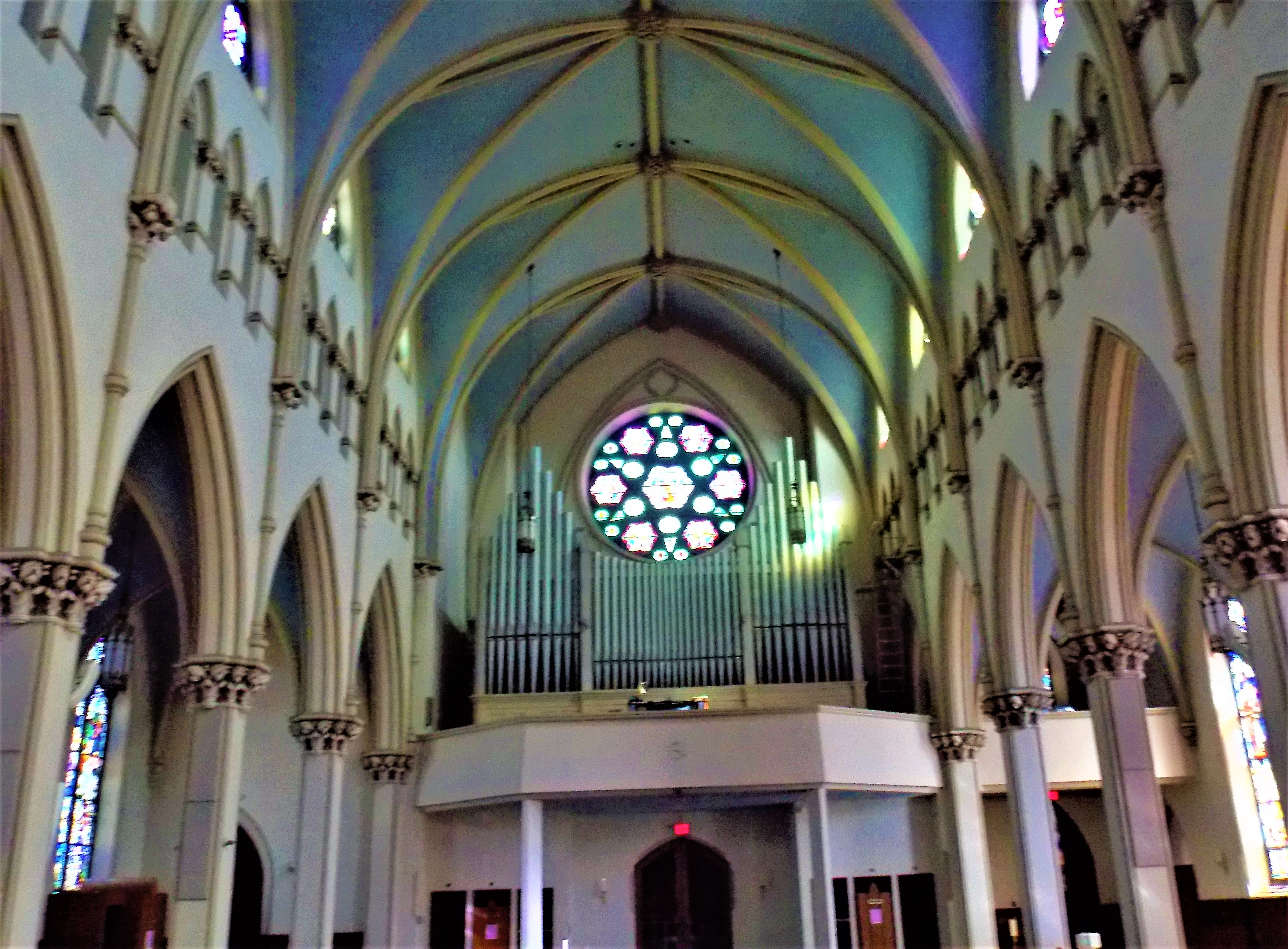 St. Dominic's Catholic Church on 6th Street SW in Washington, DC.